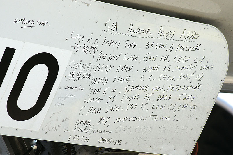 The Singapore Airlines Pilotes names on the A380. Shot at ILA 2008.